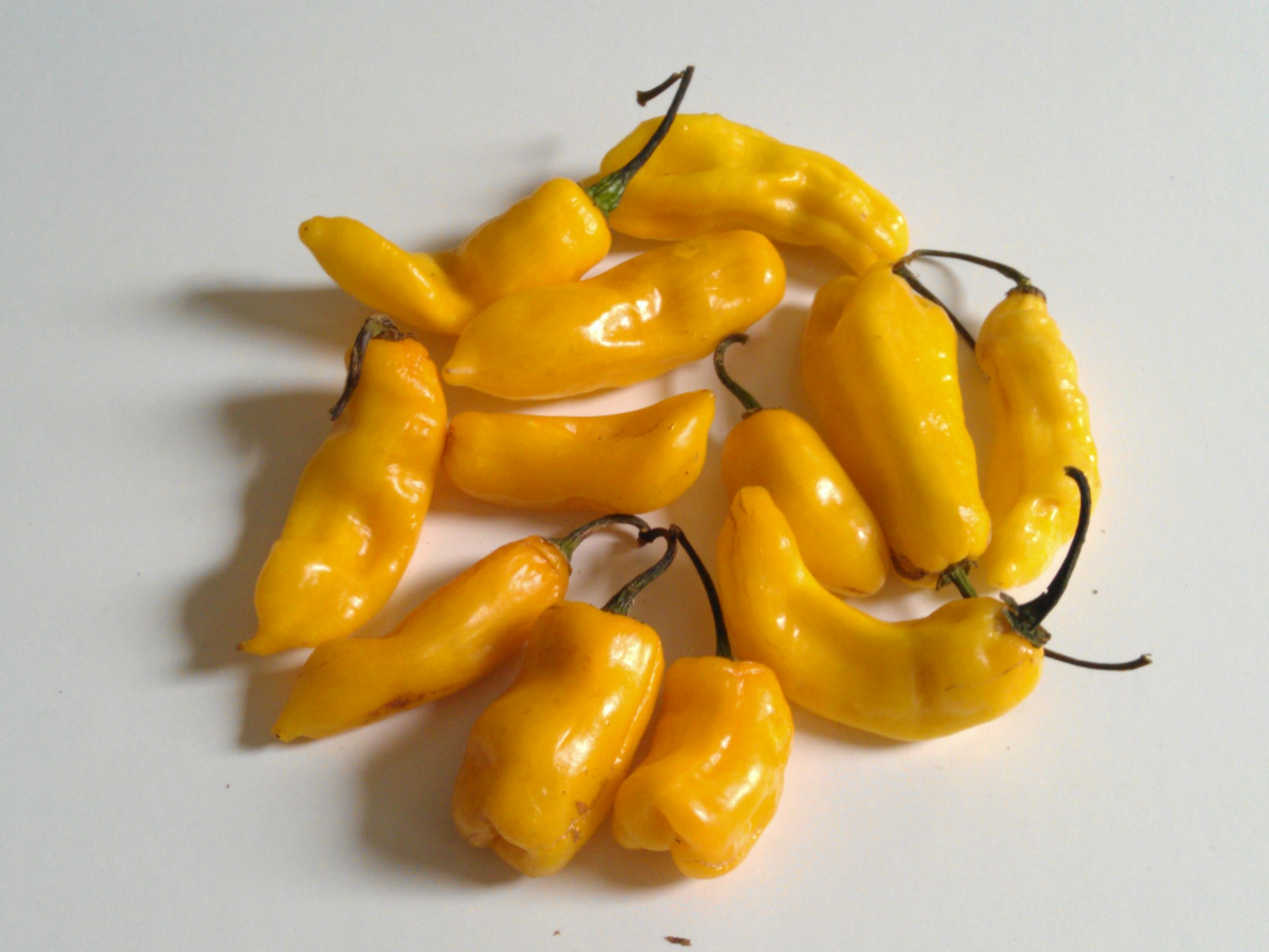 Madame Jeanette chili peppers, bought from a shop in Netherlands.